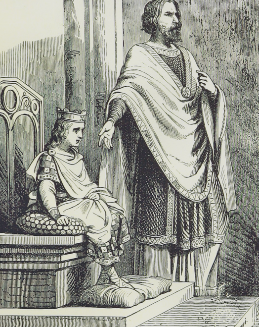 King Clovis III (left) and the mayor of the palace Pepin of Herstal (right)